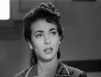 screenshot from the film Le ragazze di San Frediano (1954)